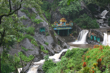 Kallathigiri Kemmanagundi